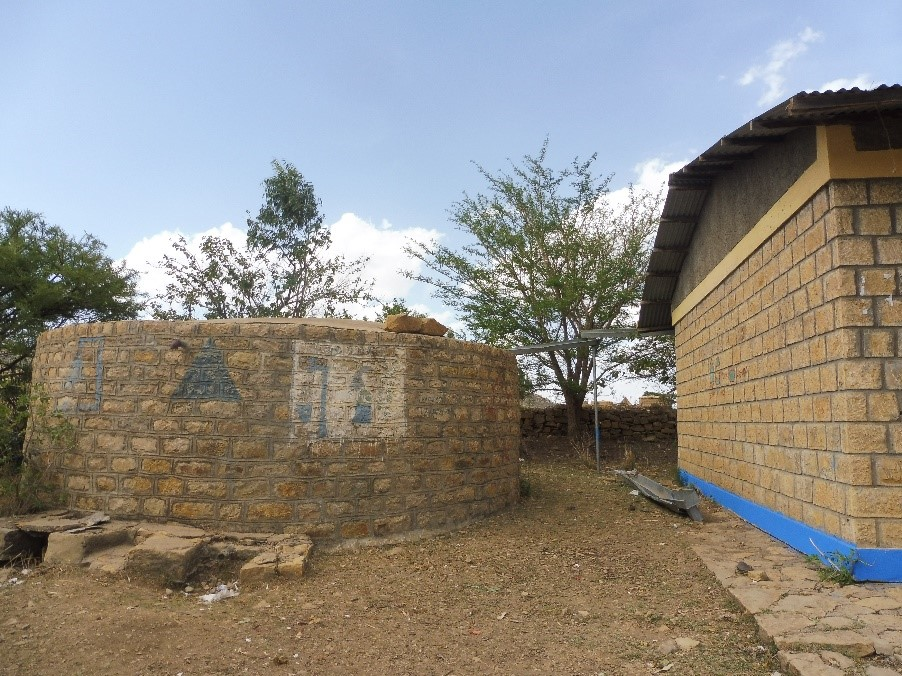 Mitslal Afras roofwater collection